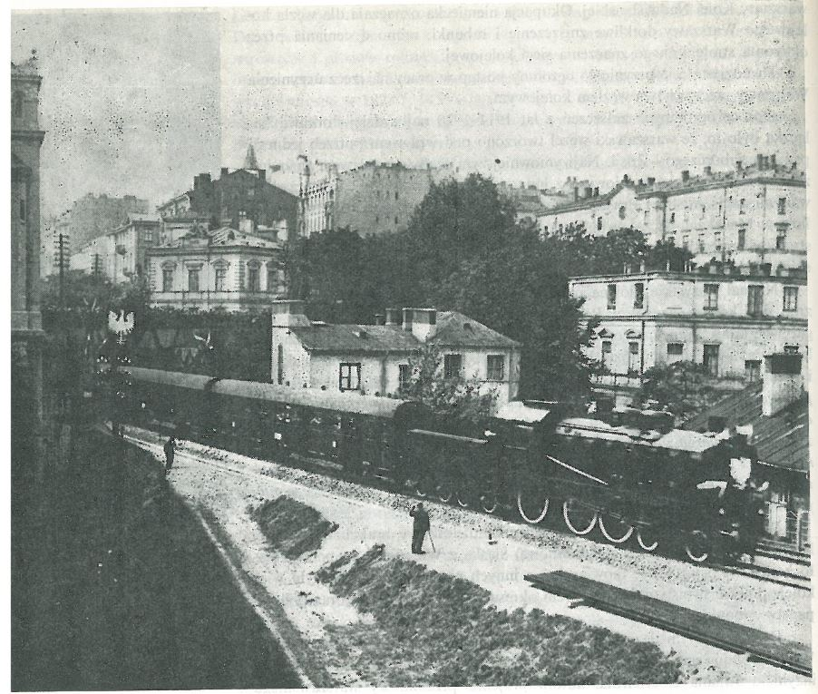 Opening of Warsaw Cross-City Line in 1933